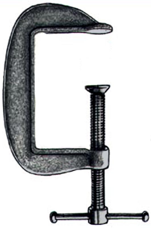 A G clamp